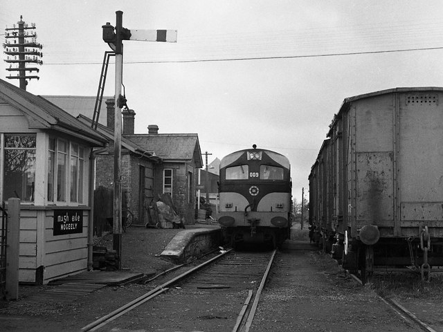 Mogeely railway station. A CIE 001 class locomotive stops at Mogeely with the daily (Mon-Fri) Cork - Youghal freight. The line from Midleton to Youghal opened in 1860, but lost regular passenger traffic in 1963, while the daily freight stopped in 1977. Cobh... more